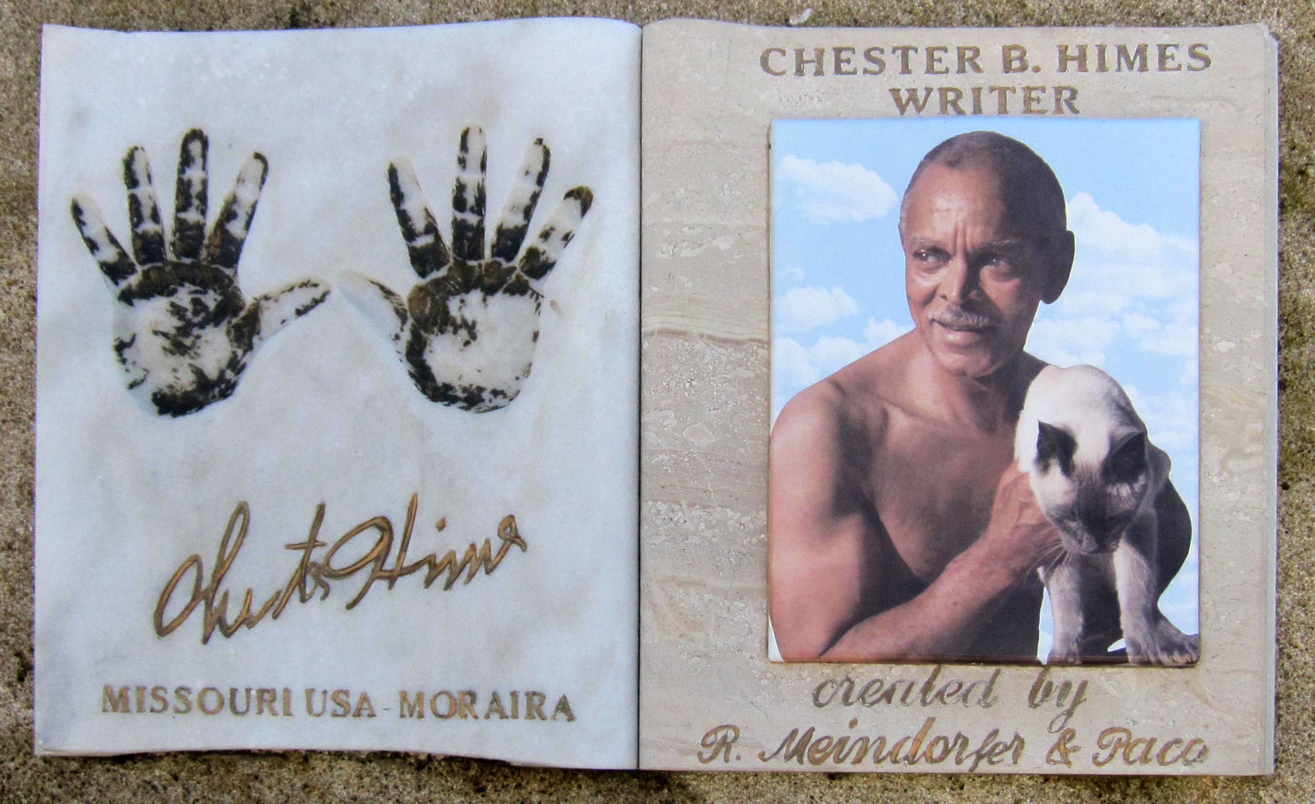 Memorial to American writer Chester Himes on Moraira Castle Beach, Spain.